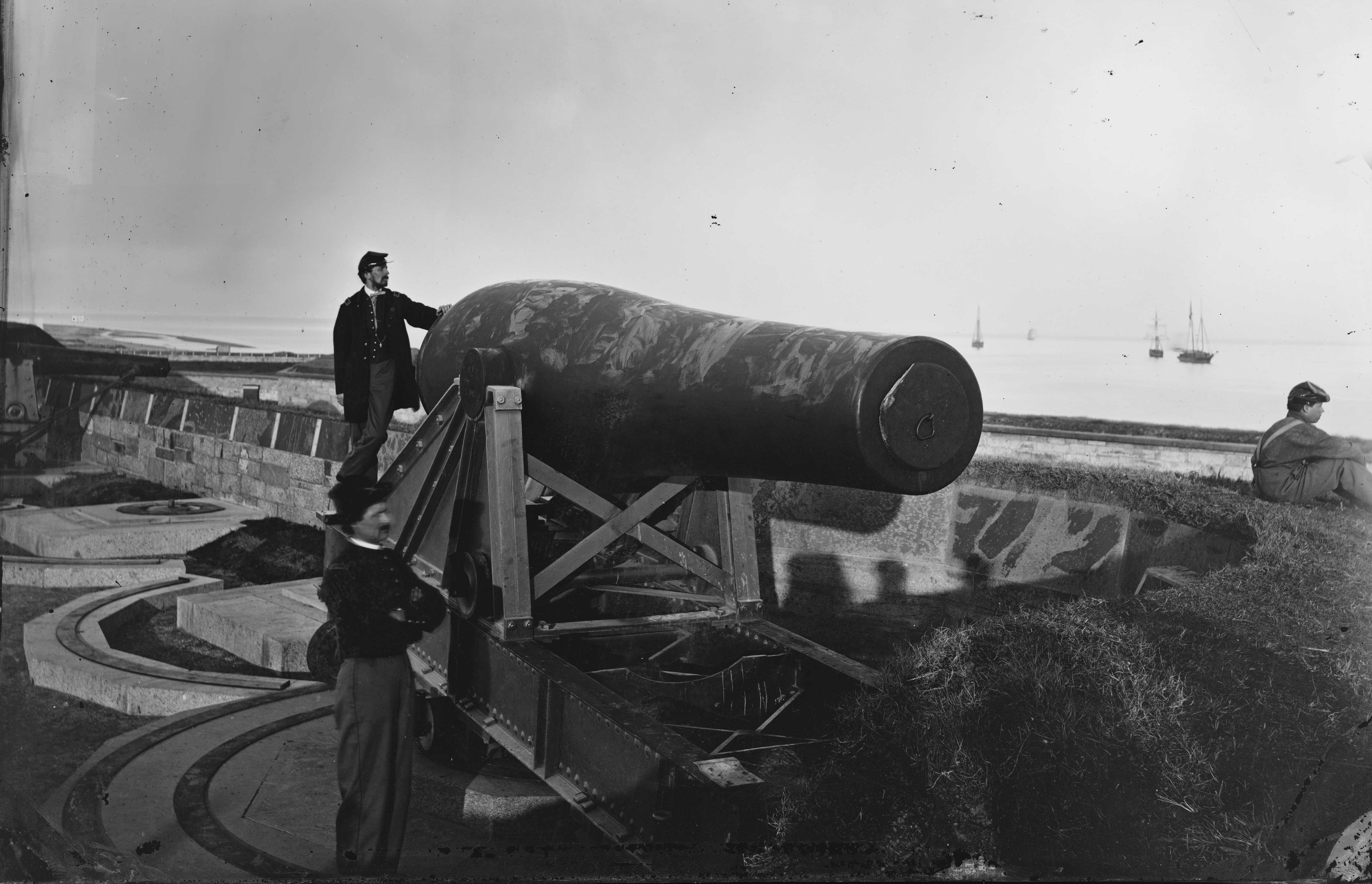 Fort Monroe, Va. The "Lincoln Gun," a 15-inch Rodman Columbiad